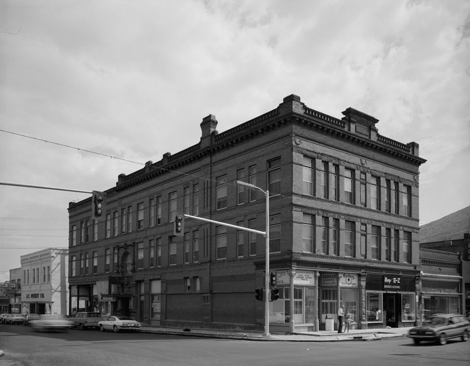 Streetside view of the Durston Building, located at the intersection of Main Street and E. Park Avenue in Anaconda, Montana, United States. Built in 1898, the building once housed the offices of the Anaconda Standard, the most widely circulated newspaper in the state. Like most of the rest of Anaconda, it is part of the Butte-Anaconda Historic District, a National Historic Landmark District.